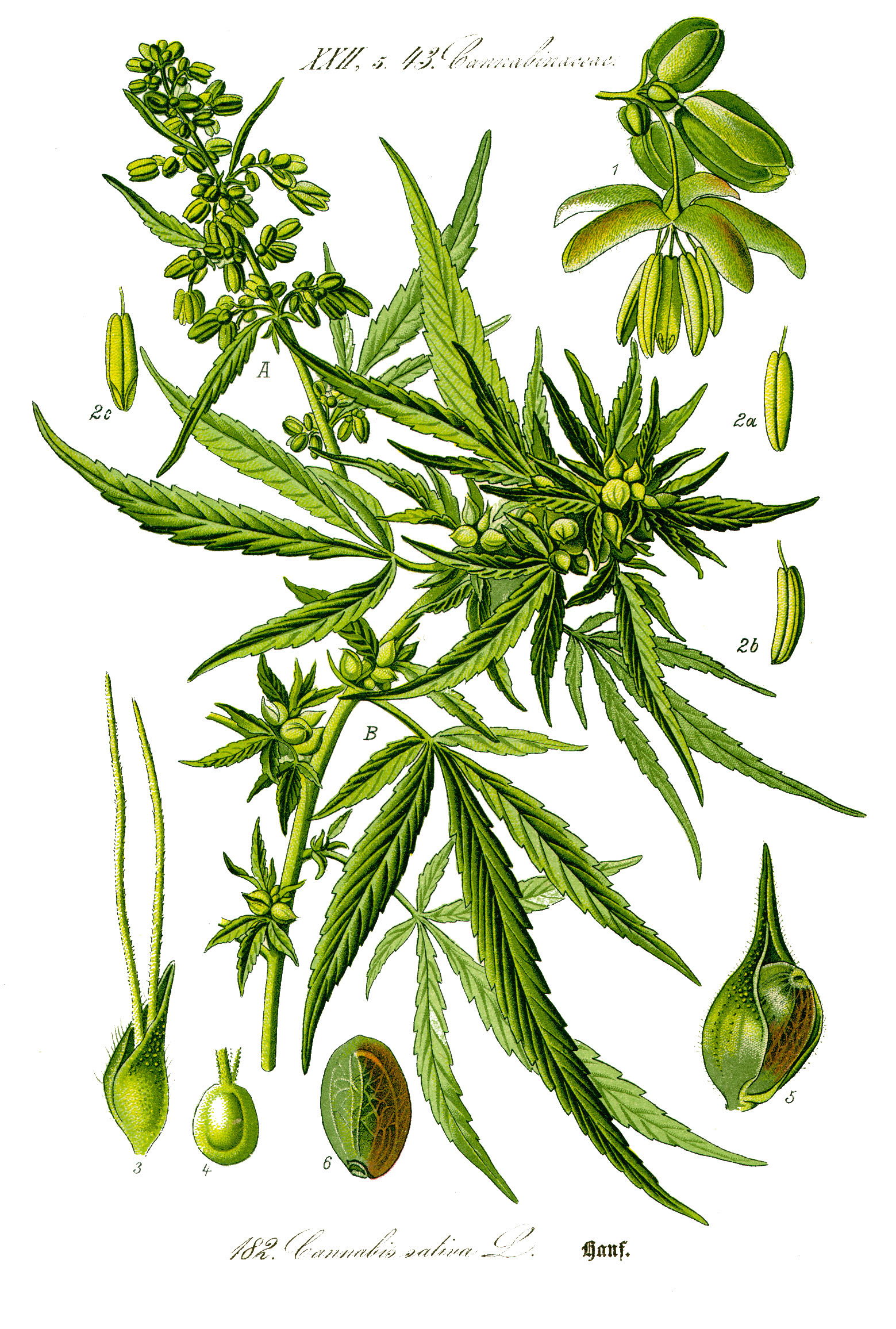 Name Cannabis sativa Family Cannabaceae